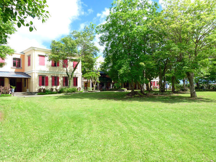 Building